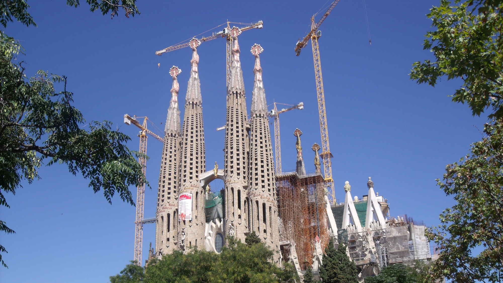 Sagrada Familia in Barcelona Spain